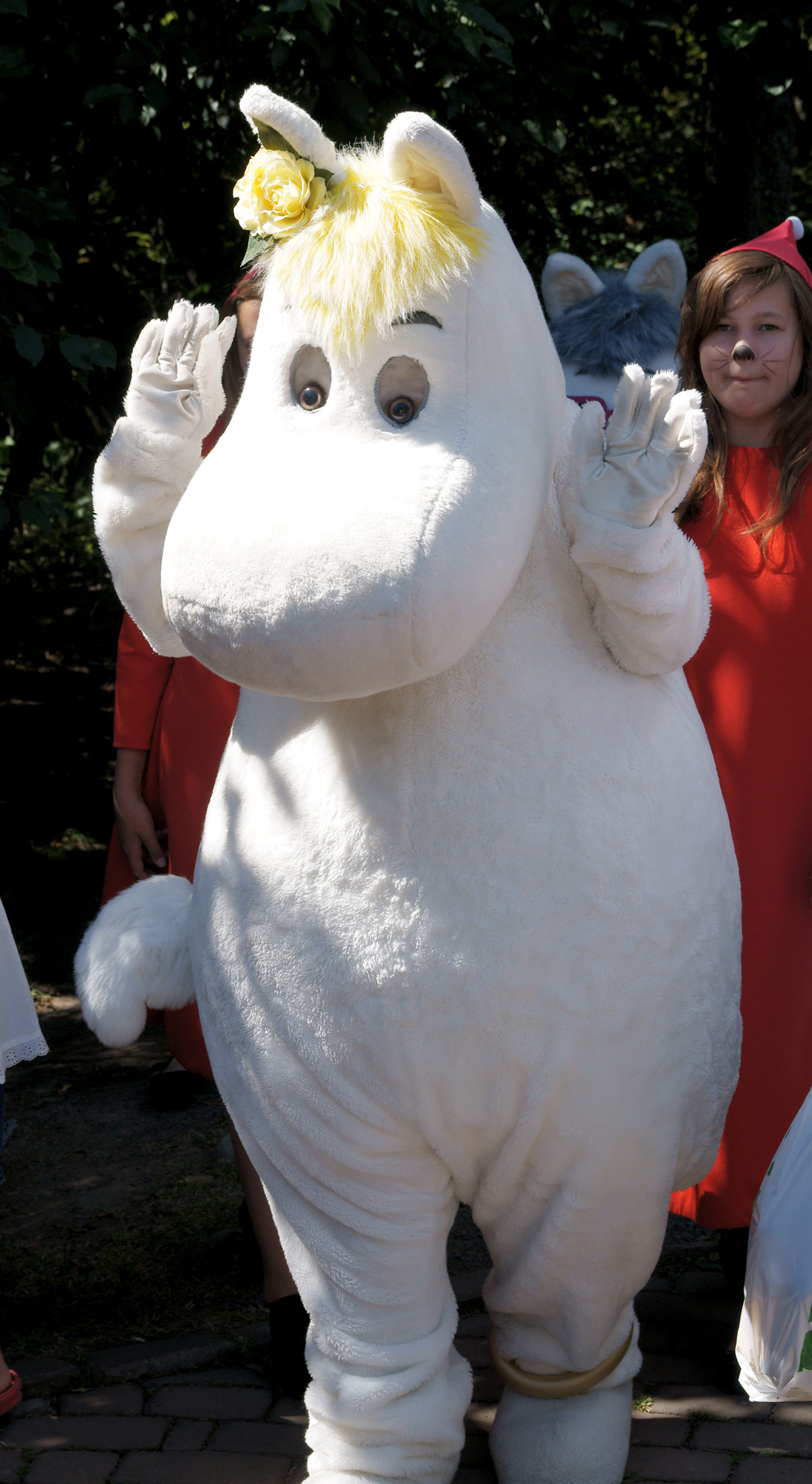 Snork Maiden in Moomin World theme park, Naantali, Finland.